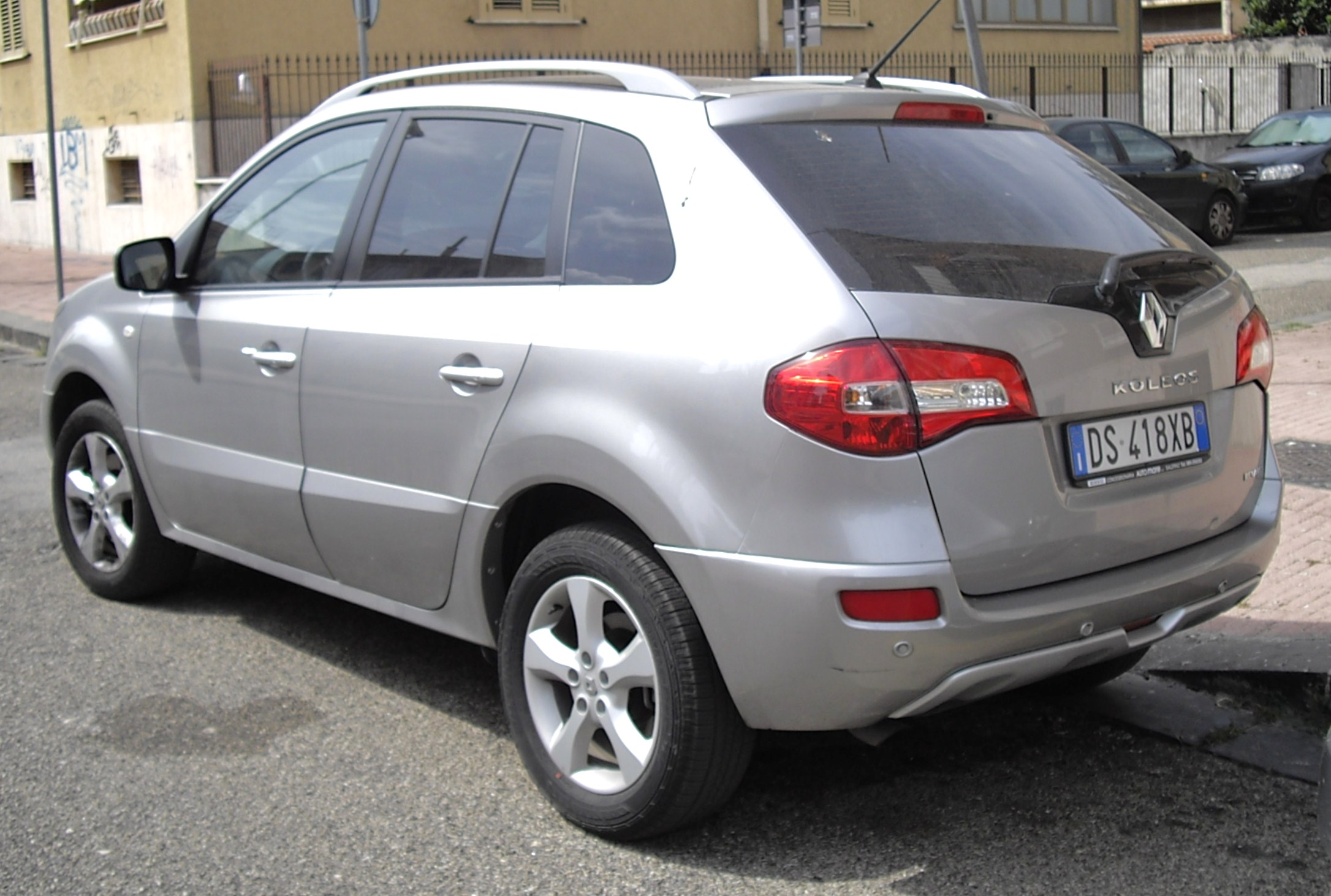 Renault Koleos